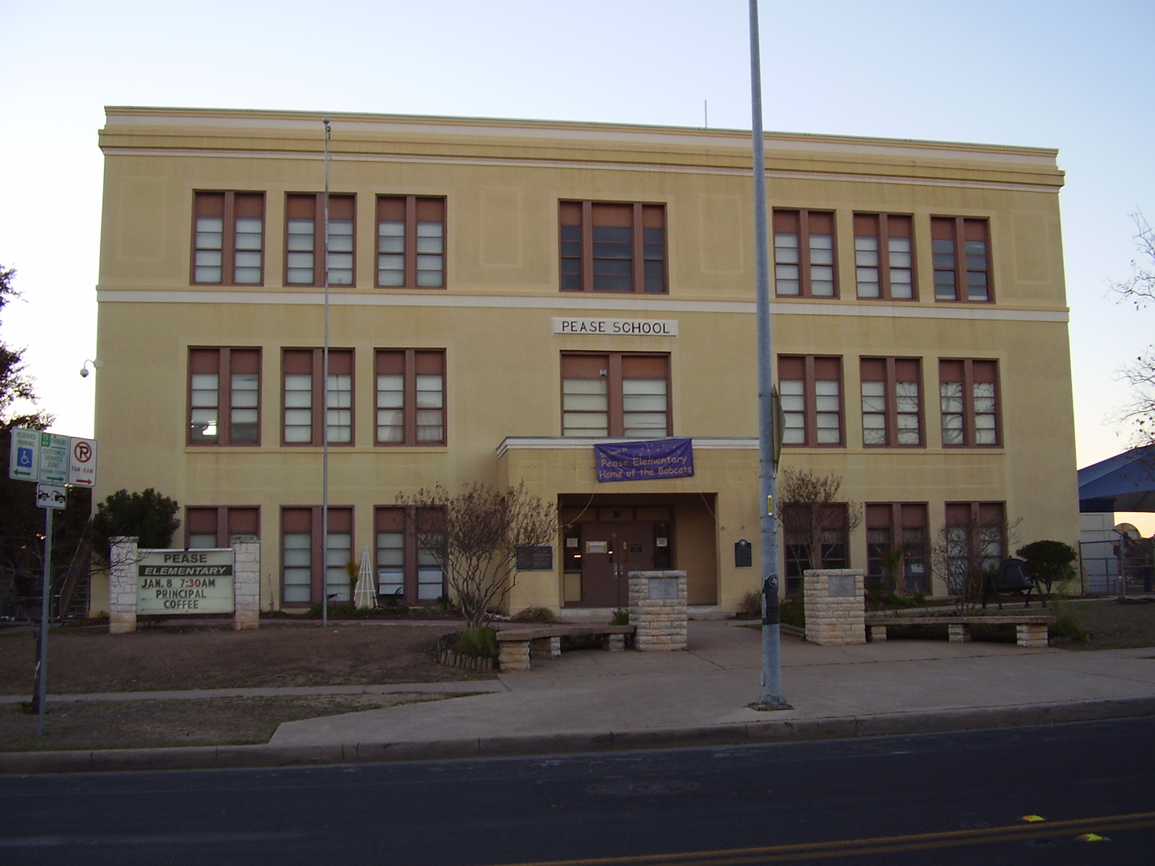 Pease Elementary School